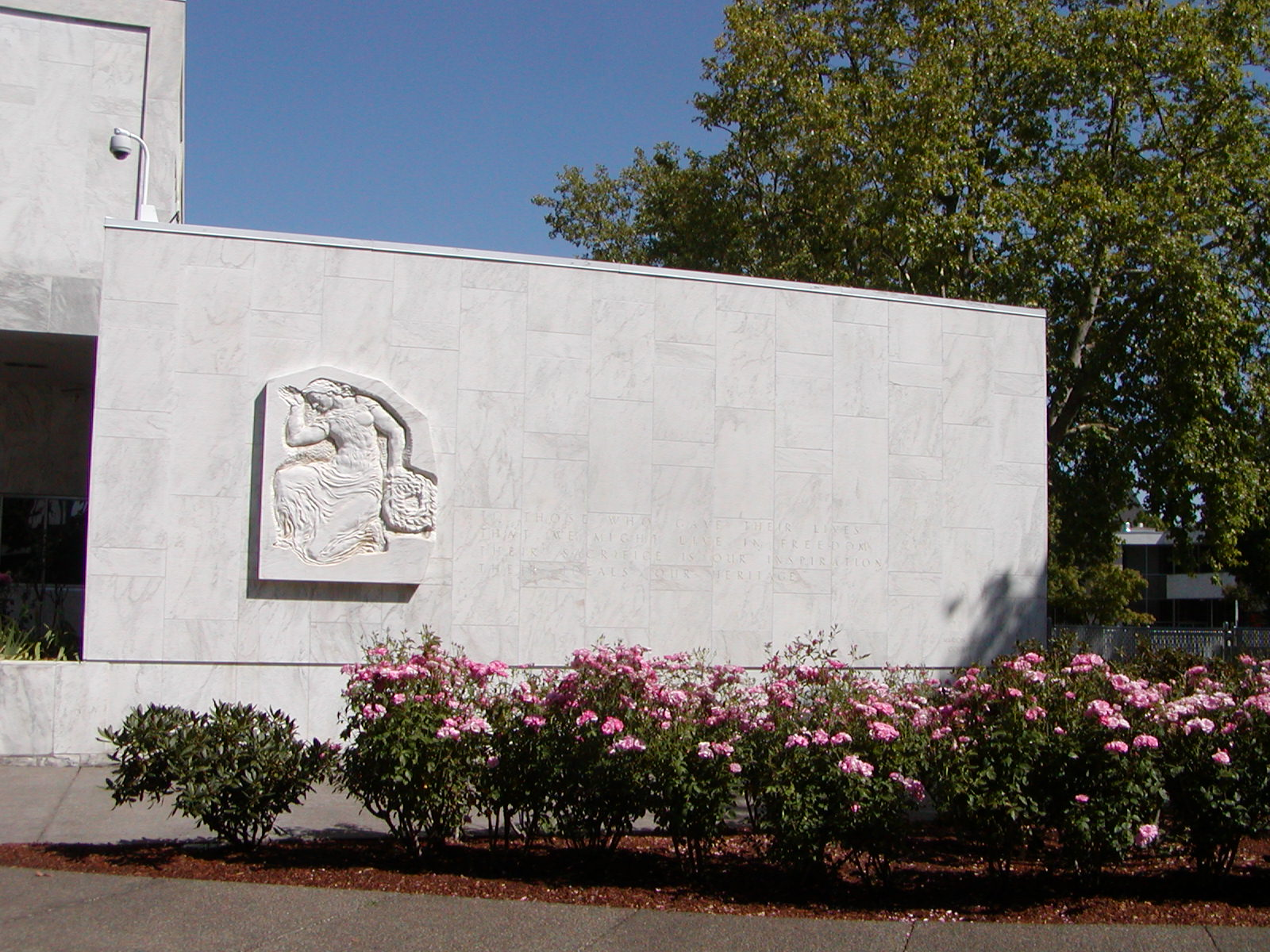 War Memorial, Marion County Courthouse, Salem, Oregon, Frederic Littman, sculptor, and Pietro Belluschi, architect